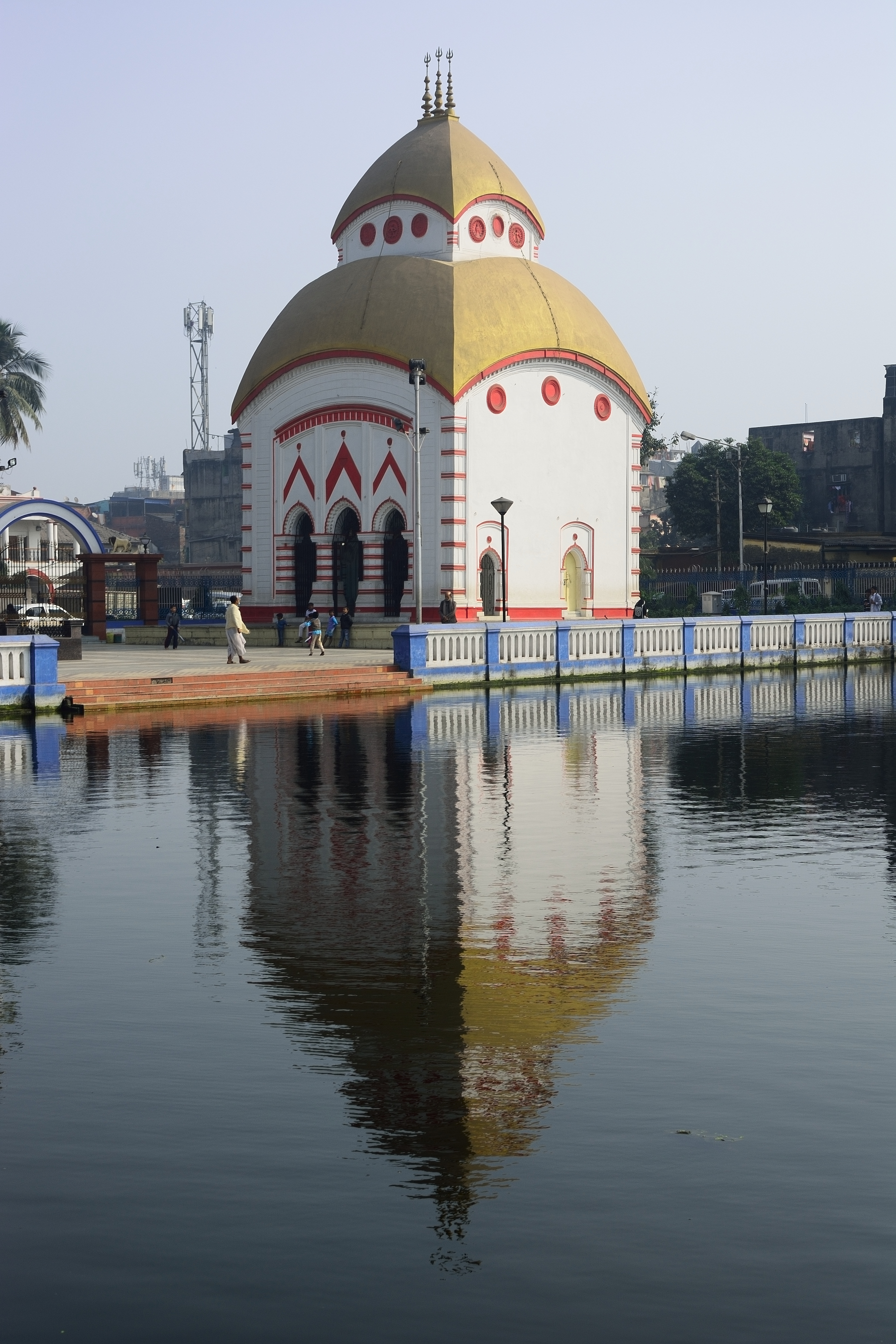 Bhukailash Shiv Temple, Khidirpur, Kolkata.